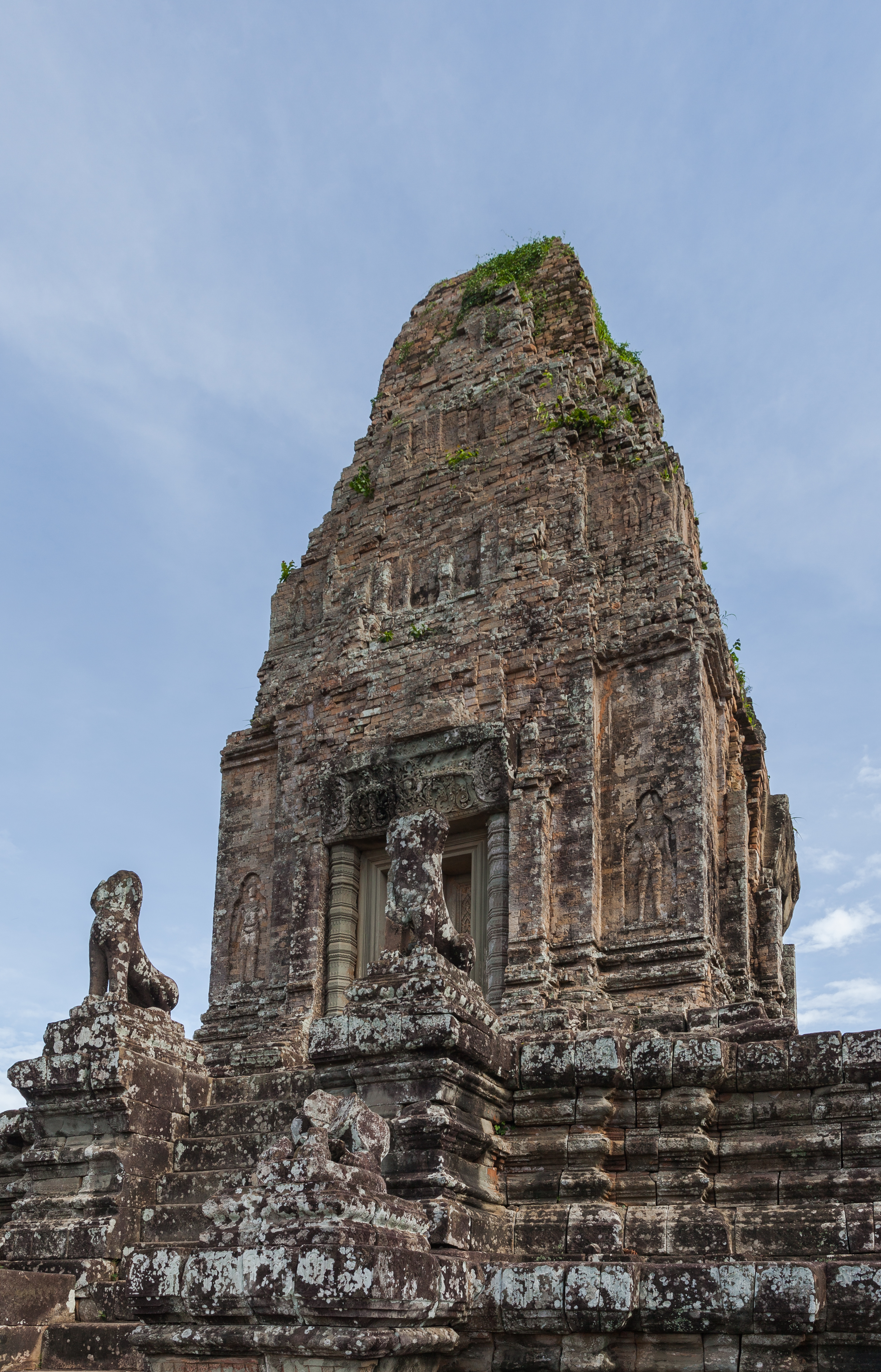 Pre Rup, Angkor, Cambodia